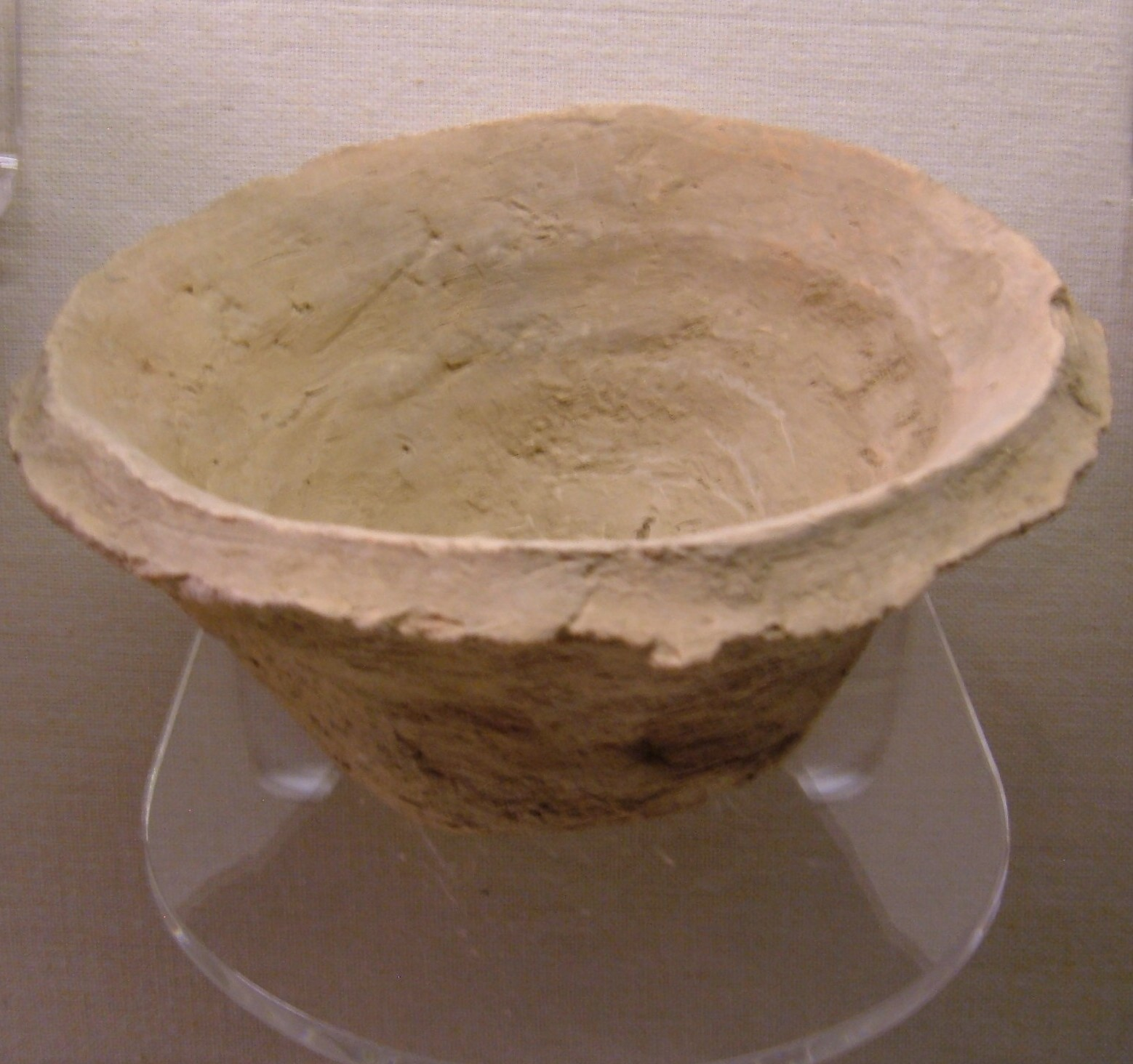 Clay bowl from Marlik on display at the Rosicrucian Egyptian Museum in San Jose, California. This kind of bowl would have held a day's ration for a corvée laborer.